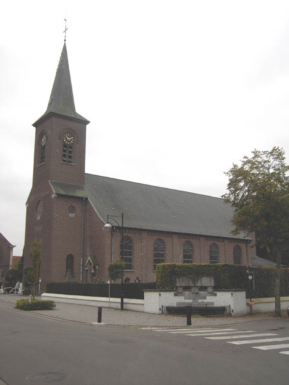 Church of Saint Vincent de Paul in Maldegem-Kleit. Kleit, Maldegem, East Flanders, Belgium